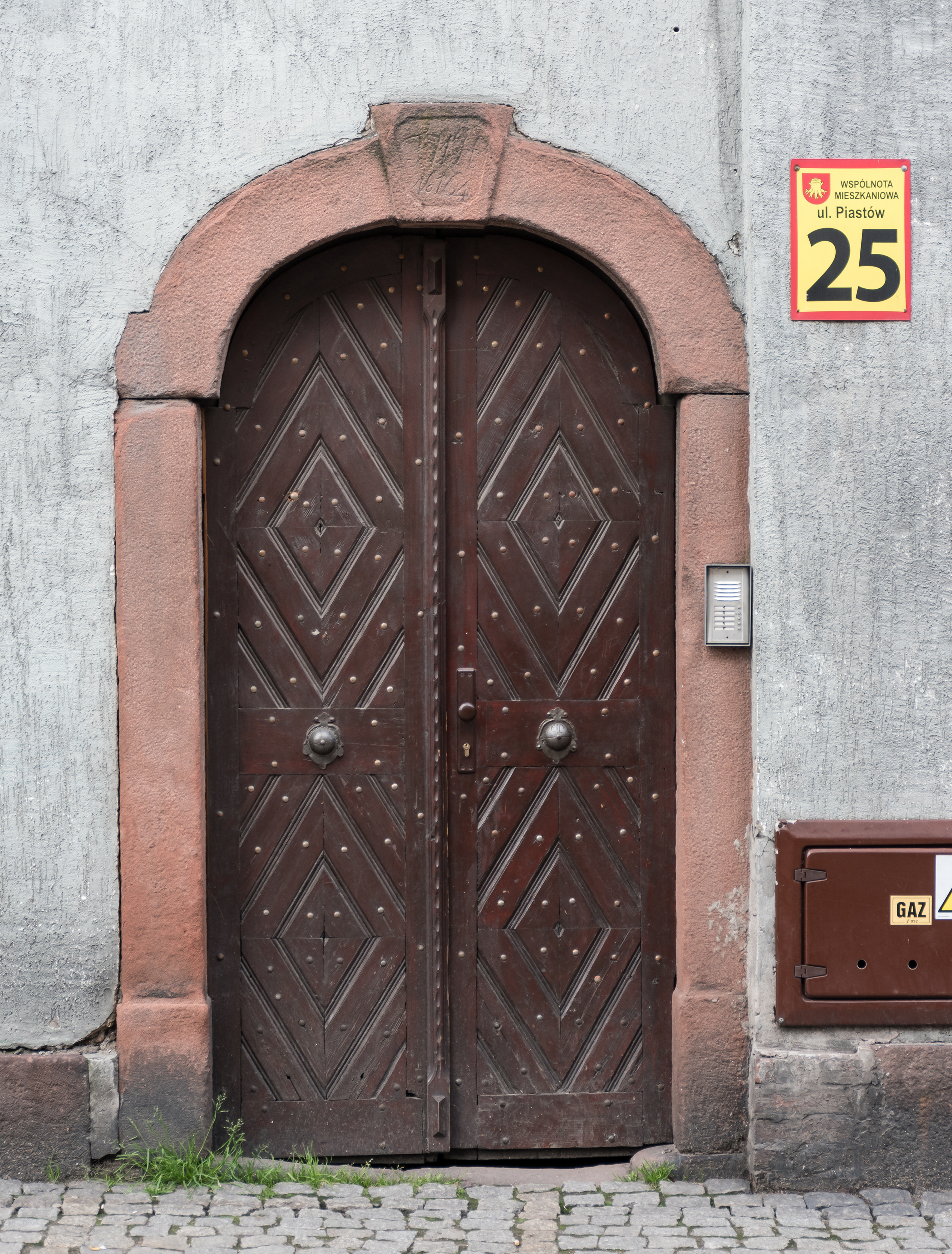 25 Piastów Street in Nowa Ruda